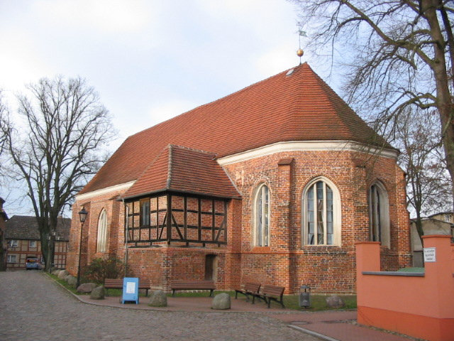 Church St.Marien in Neustadt-Glewe, Germany